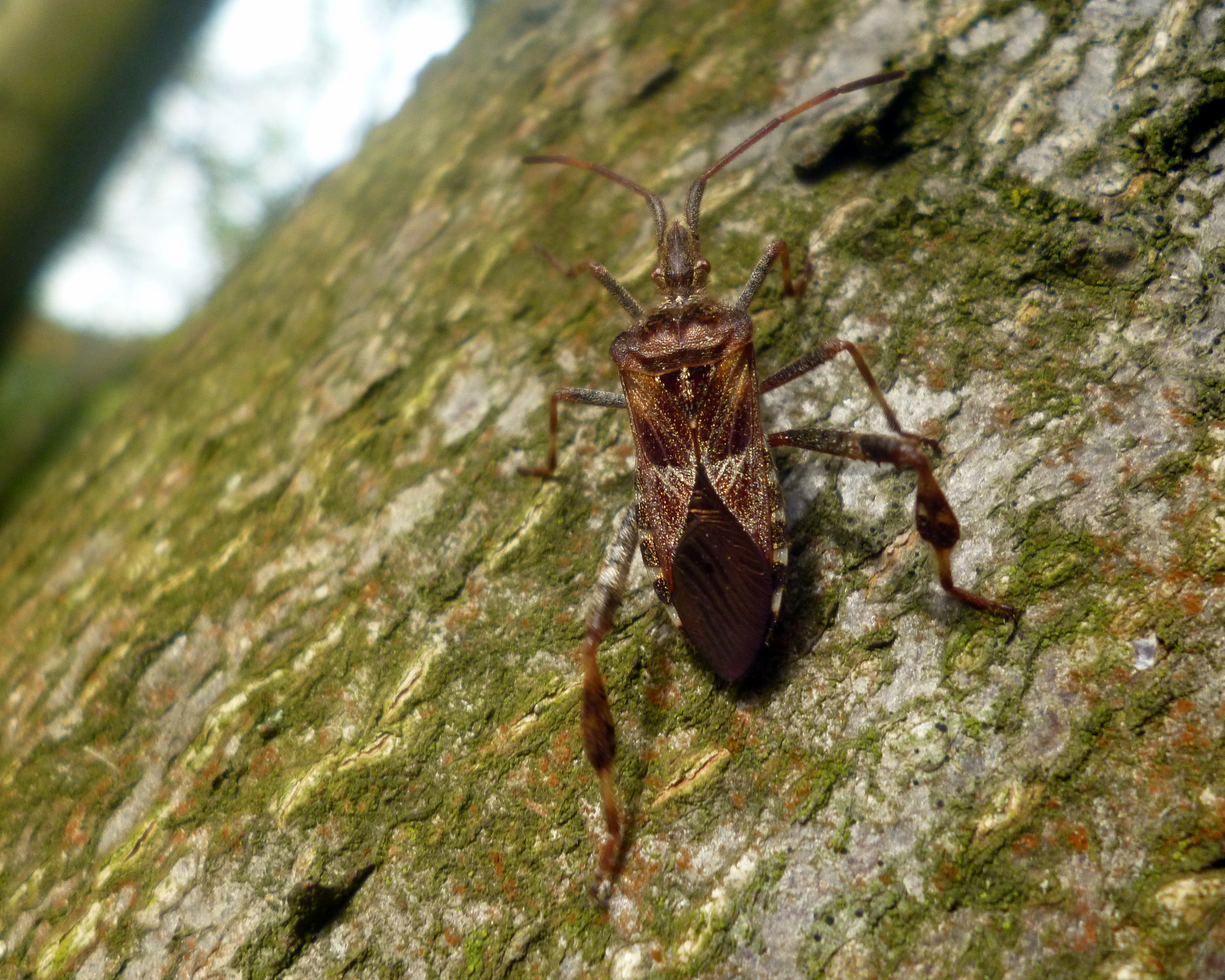 Western conifer seed bug (Leptoglossus occidentalis) on a tree in Germany